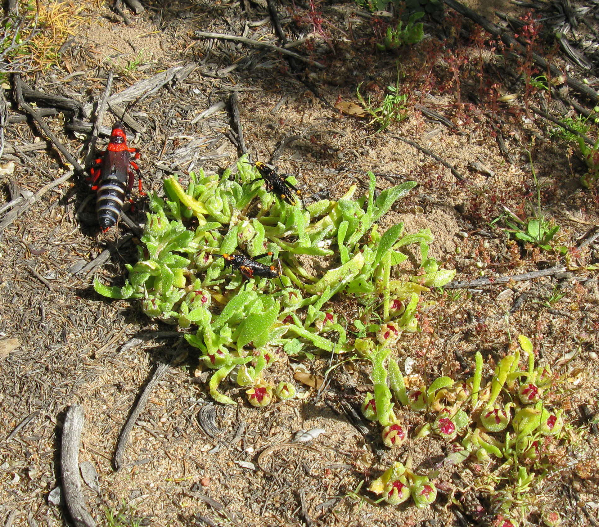 Probable species Dictyophorus spumans, in the family of stinking grasshoppers, Pyrgomorphidae. The young specimens have yellow on black and form large broods to discourage predators. However, they are nervous creatures and scatter if alarmed, hence this isolated specimen in this photo. They are renowned for accumulating poisons from the plants they eat, particularly Asclepiadaceae, however, these were eating an unrelated succulent.